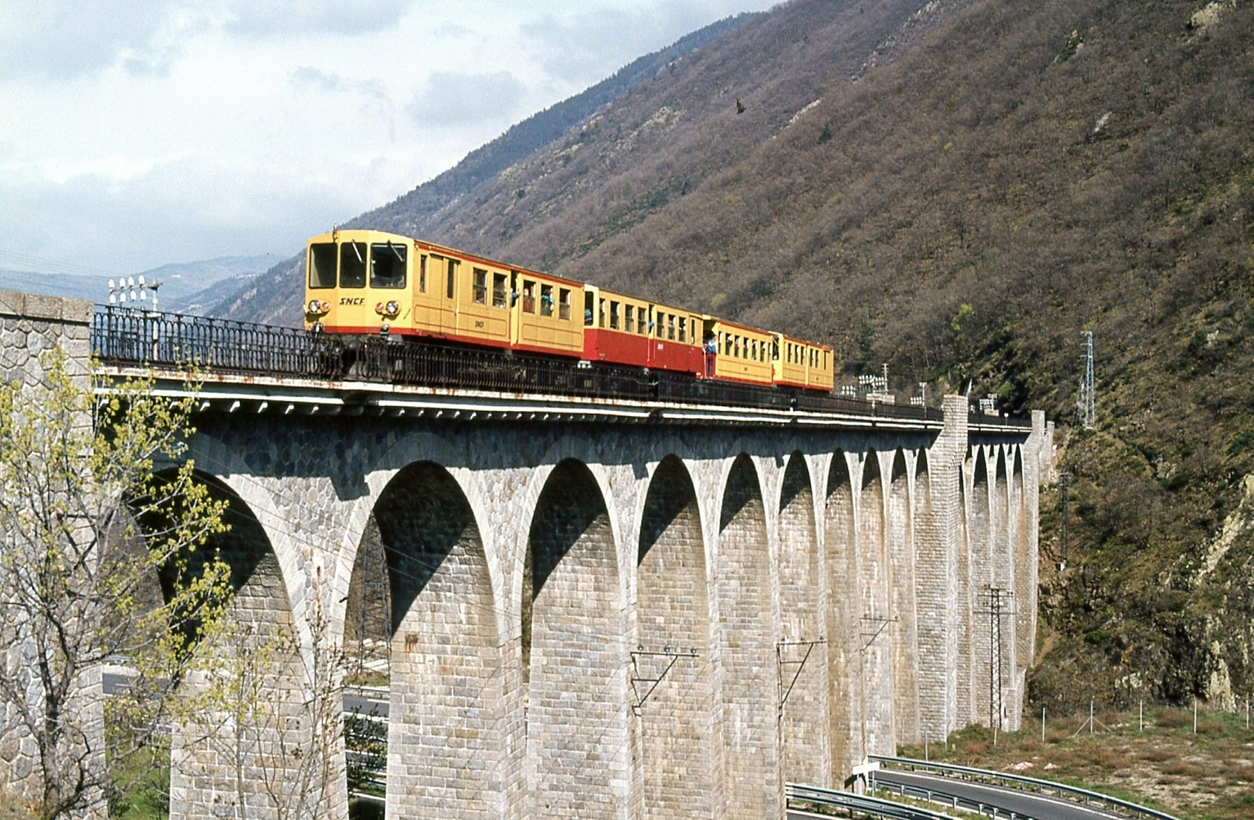 Ligne de Cerdagne, train on the Sejourne viaduct.